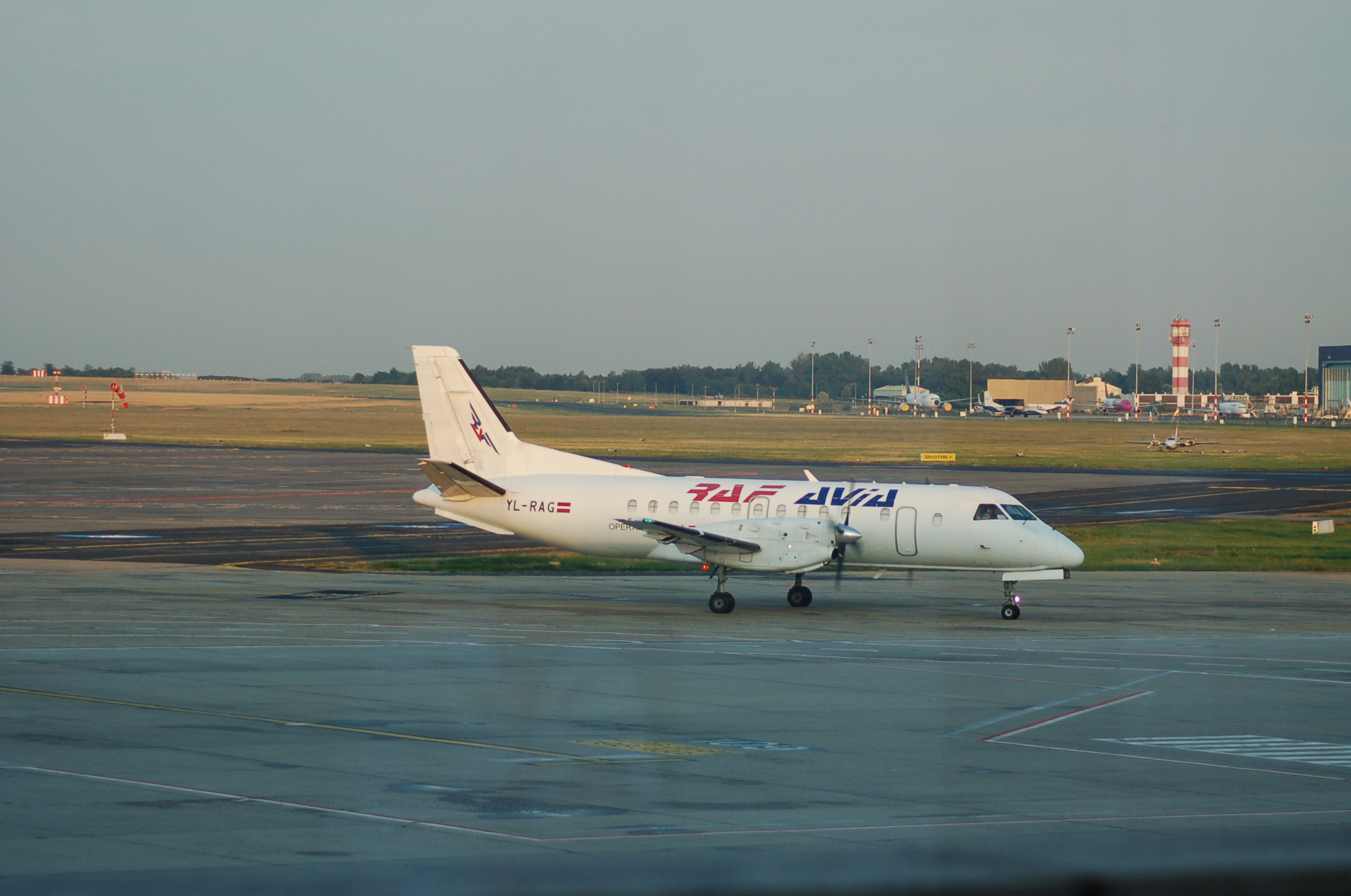 SAAB 340 of Raf-Avia Airlines at Budapest-Ferenc Liszt/Ferihegy Inter'l,Hungary on 14/06/11.